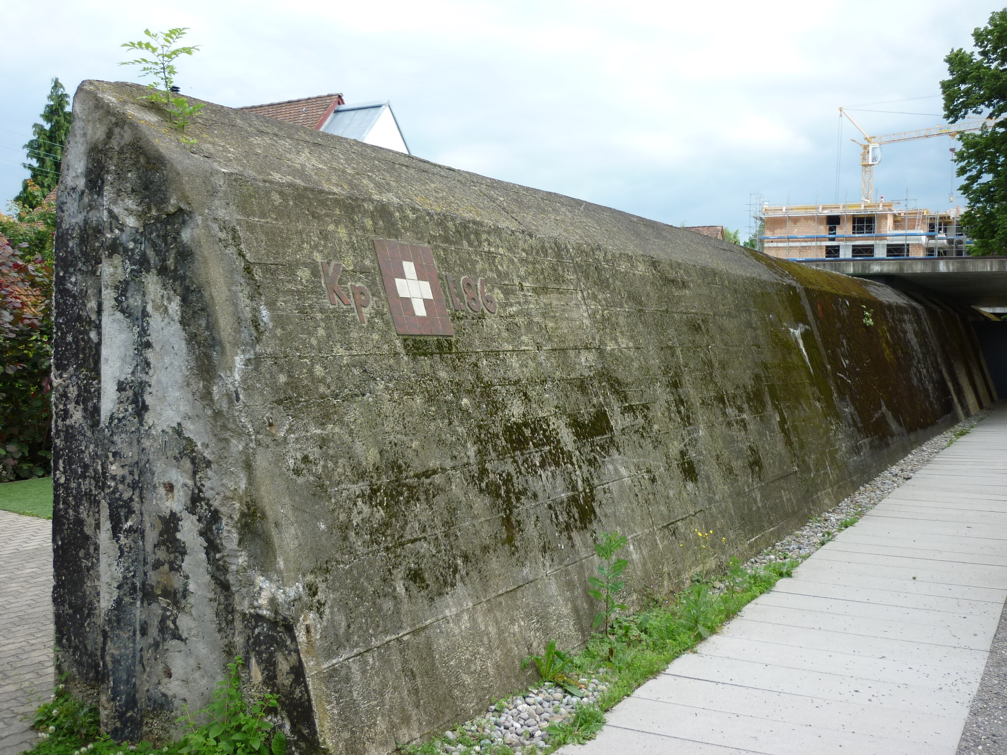 Fortification Dietikon ZH WWII, Switzerland